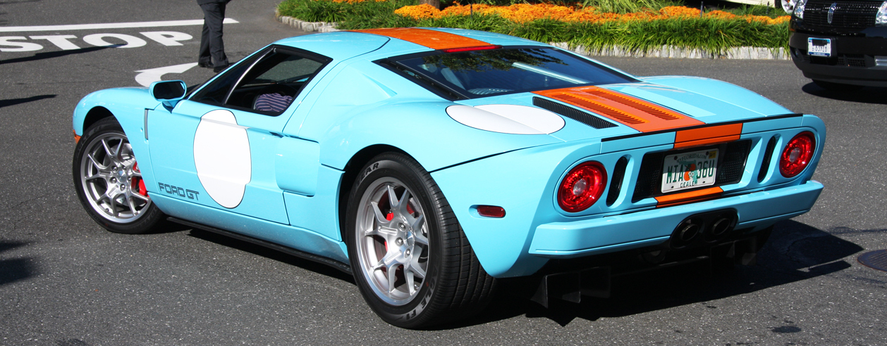 Yet another heritage edition.